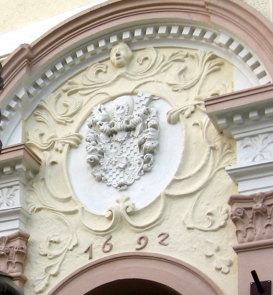 Wołów - coat of arms on the town hall wall